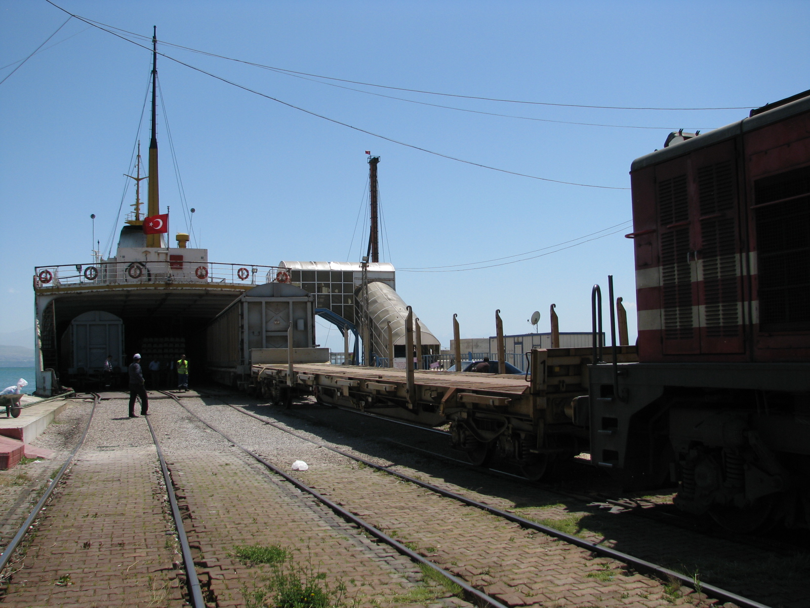 Train ferry Van